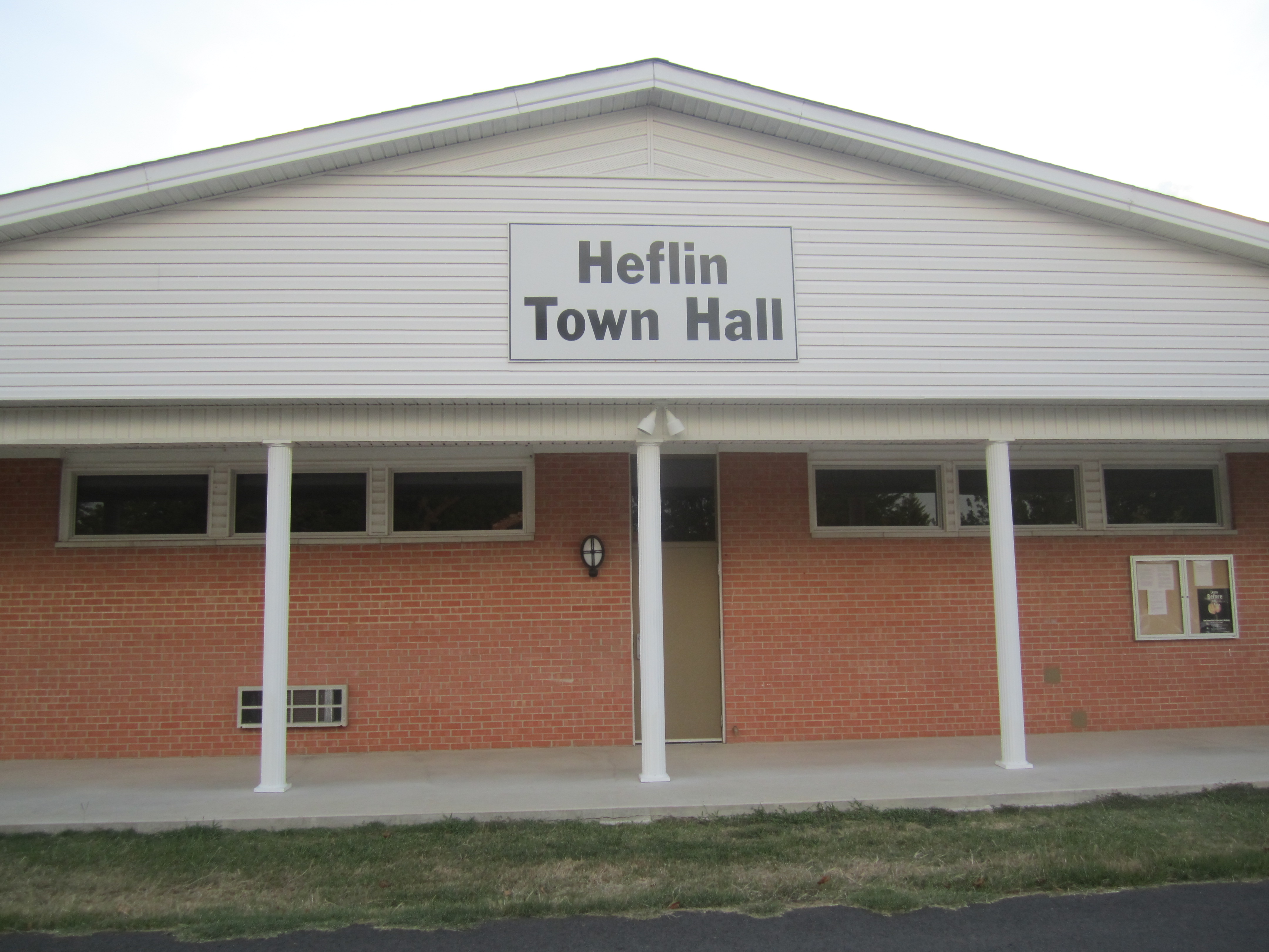 I took photo in Heflin, LA, with Canon camera, of the town hall.